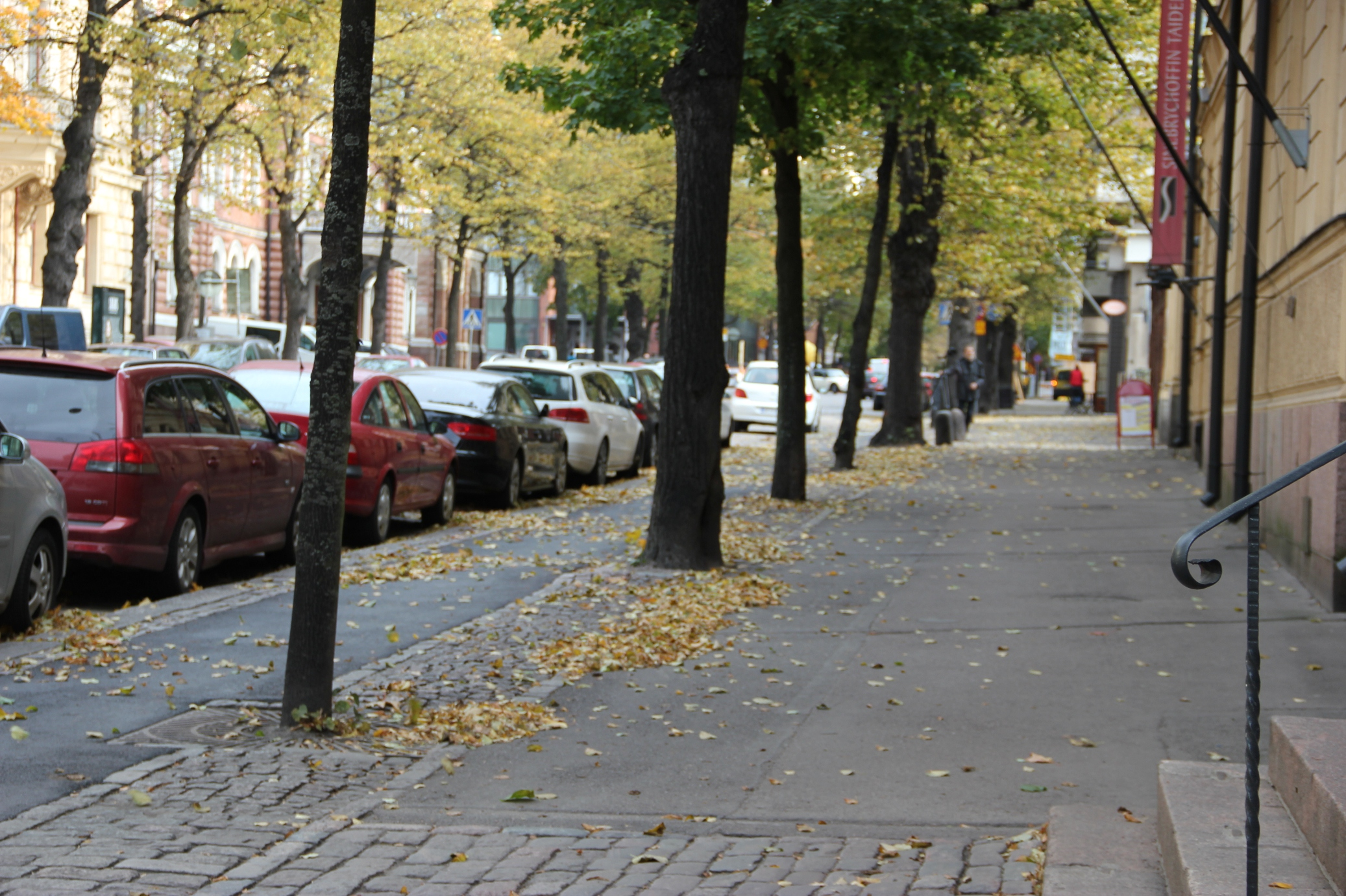 Bulevardi Street October 2014, to the right Sinebrychoff Art Museum, to the left Alexander Theater